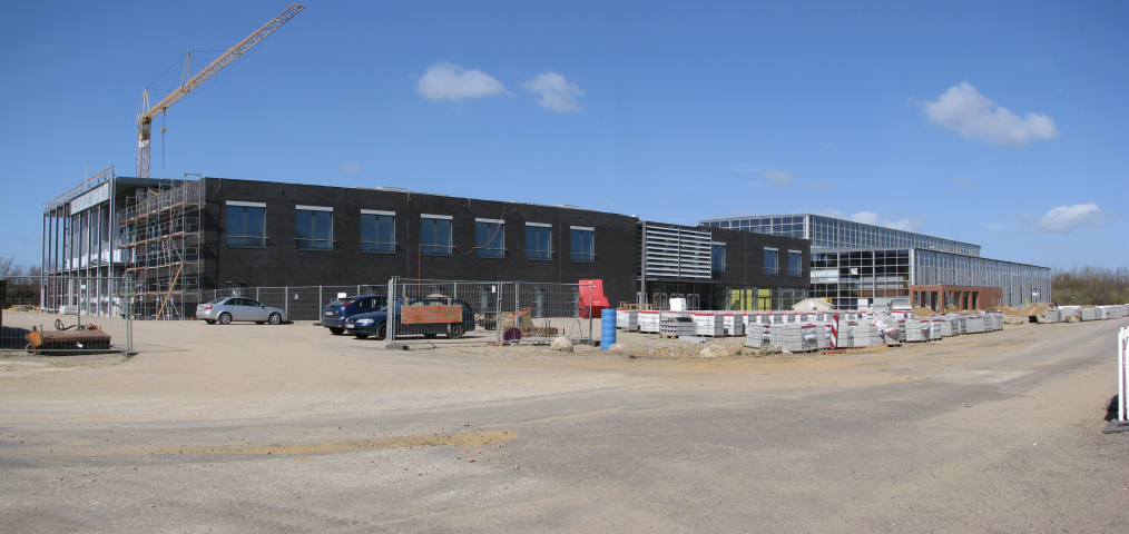 Exhibition hall and convention center (under construction) of german city Husum